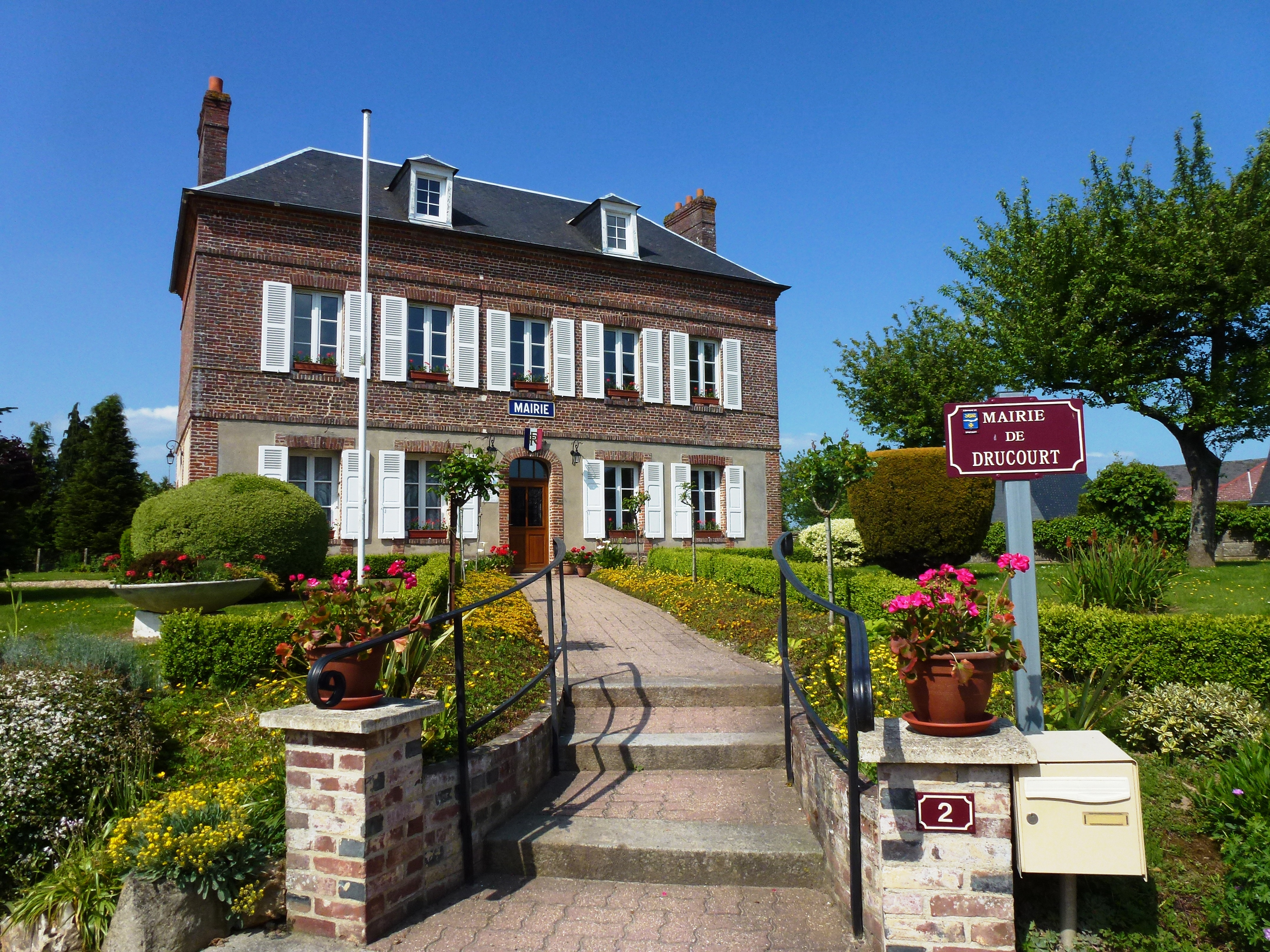 Drucourt (Eure, Fr) mairie